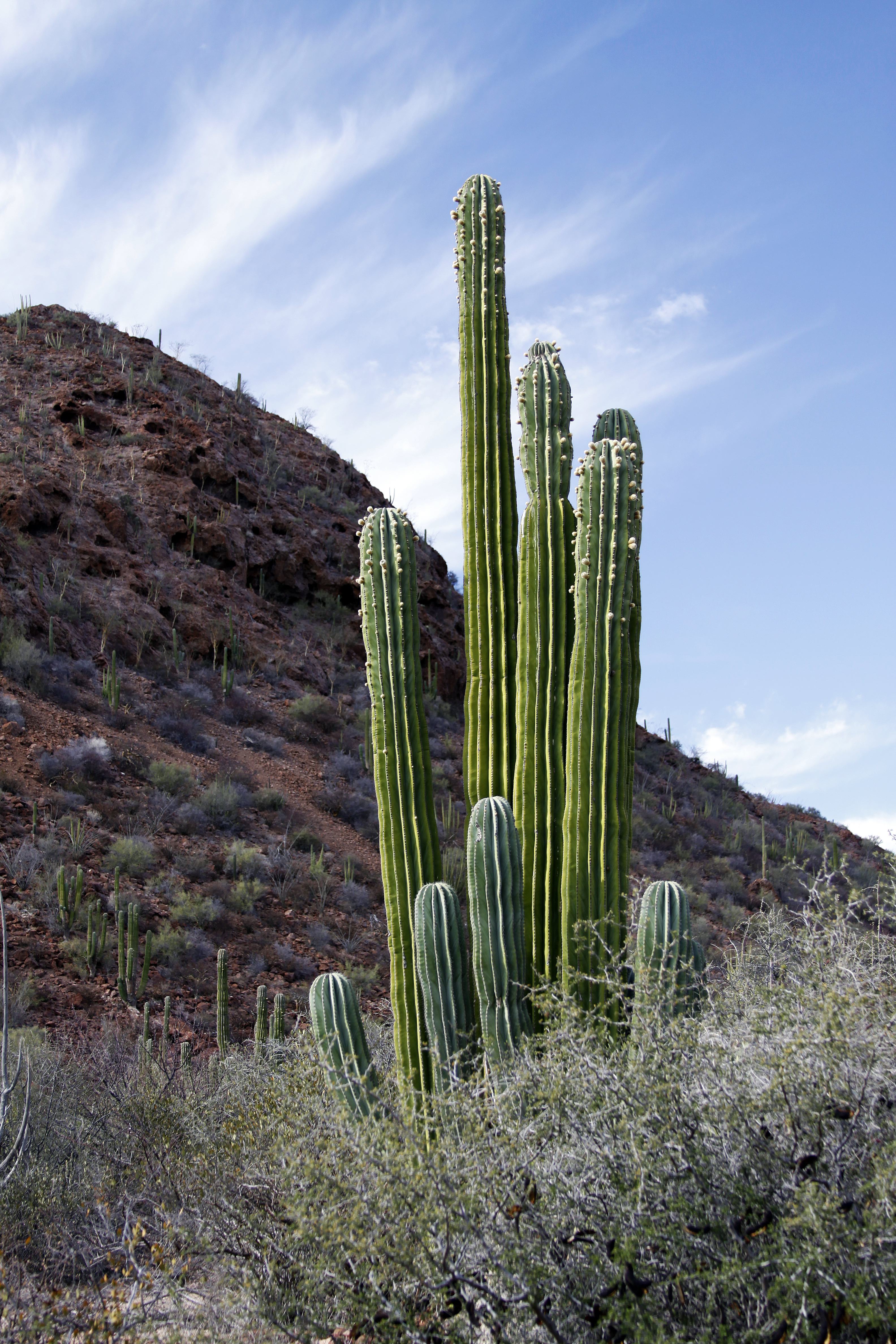 Cardon (Pachycereus pringlei) in the Sonora Desert. Near the Seri Indian Reservation in Punta Chueca, Sonora.